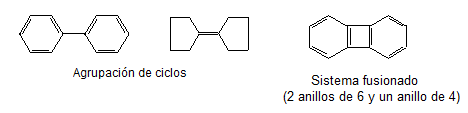 Assamblies definition and diferentiation with fused systems